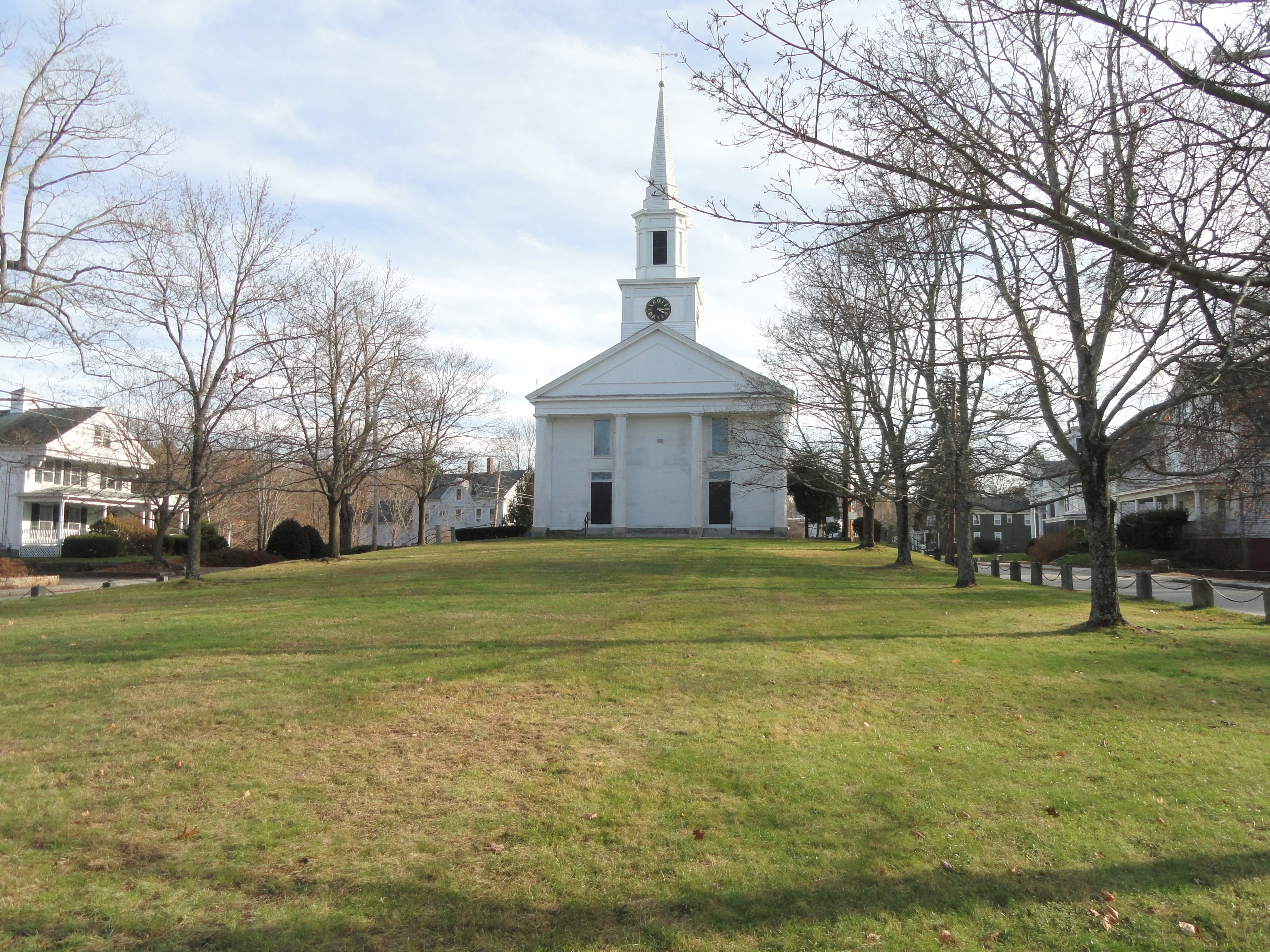 Second Congregational Church, Douglas, Massachusetts, USA.